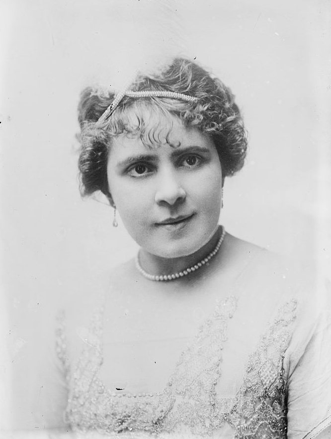 Beatrice La Palme (LOC) Bain News Service,, publisher. Beatrice La Palme [between ca. 1910 and ca. 1915] 1 negative : glass ; 5 x 7 in. or smaller. Notes: Title from unverified data provided by the Bain News Service on the negatives or caption cards. Forms part of: George Grantham Bain Collection (Library of Congress). Format: Glass negatives. Repository: Library of Congress, Prints and Photographs Division, Washington, D.C. 20540 USA, General information about the Bain Collection is available at Persistent URL: Call Number: LC-B2- 2916-7